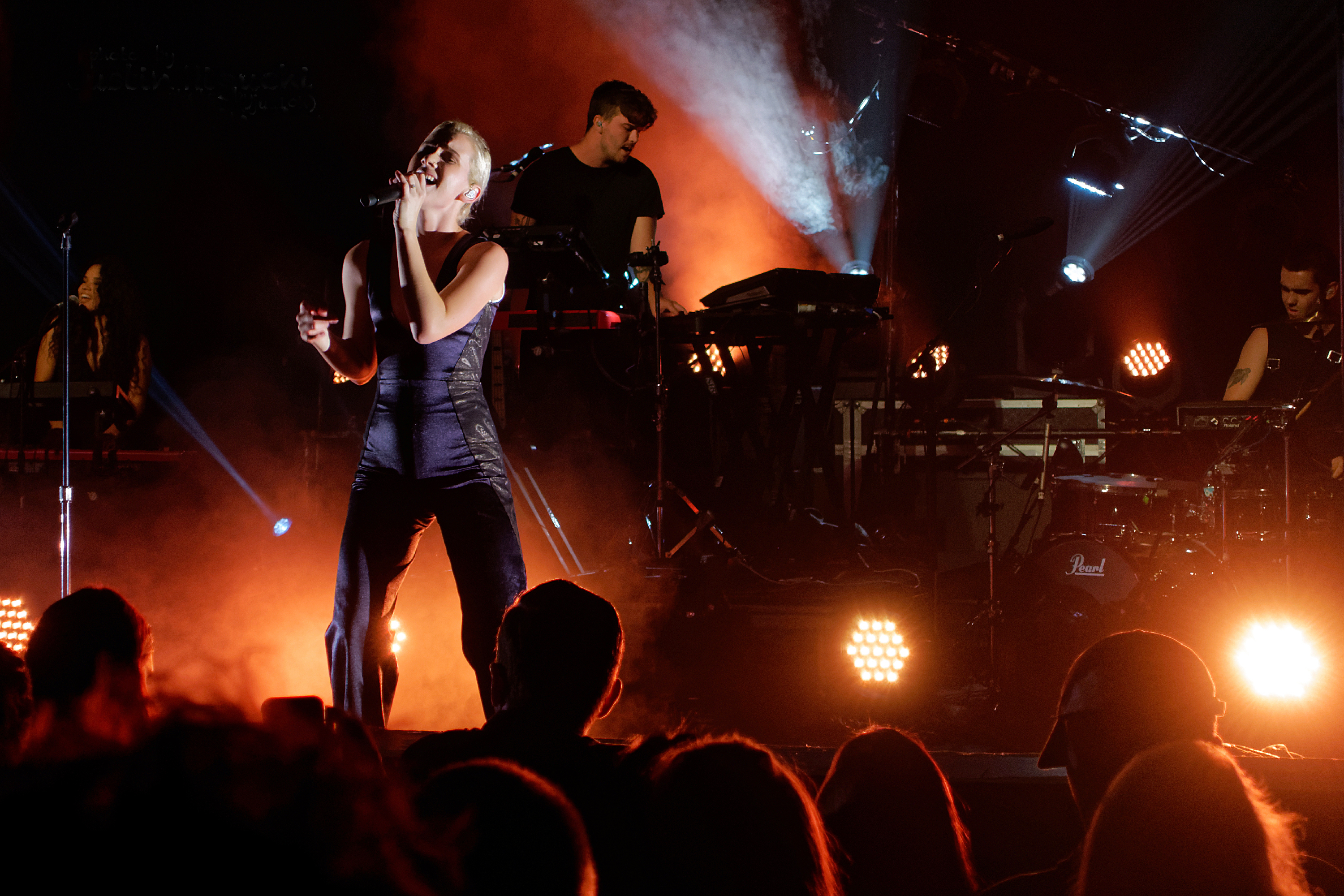 Broods at The Observatory in Orange County, Santa Ana, California, on Saturday, August 20th, 2016.